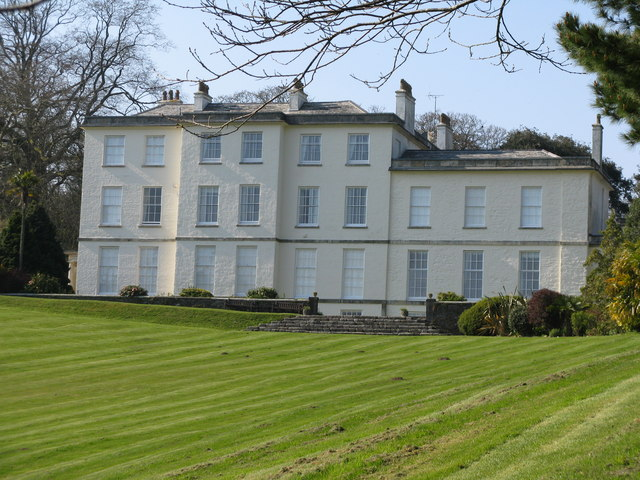 Heligan House The house is in private occupation, and is not open to the public